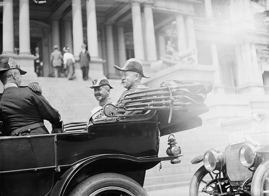 The German rear admiral Hubert von Rebeur-Paschwitz with other officers in June 1912 in the United States. He commanded a squadron consisting of the battlecruiser SMS Moltke, the cruisers SMS Stettin and SMS Bremen which visited Hampton Roads/Norfolk, Virginia, and New York City.